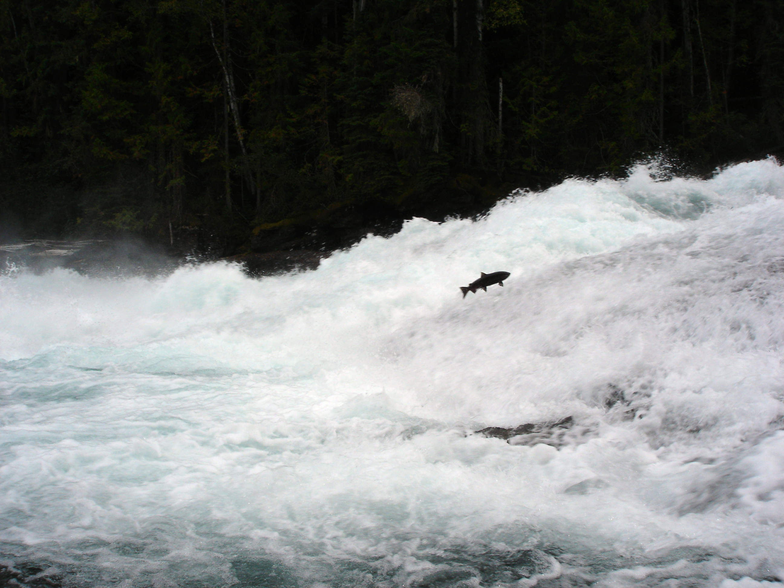 Category:Clearwater River, British Columbia, Canada. Salmon trying to jump Bailey's Chute.